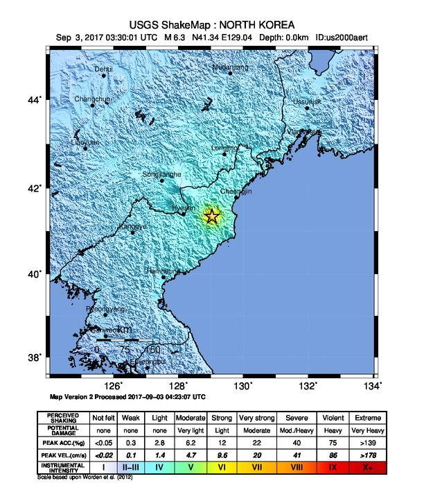 M 6.3 Explosion - 22km ENE of Sungjibaegam, North Korea